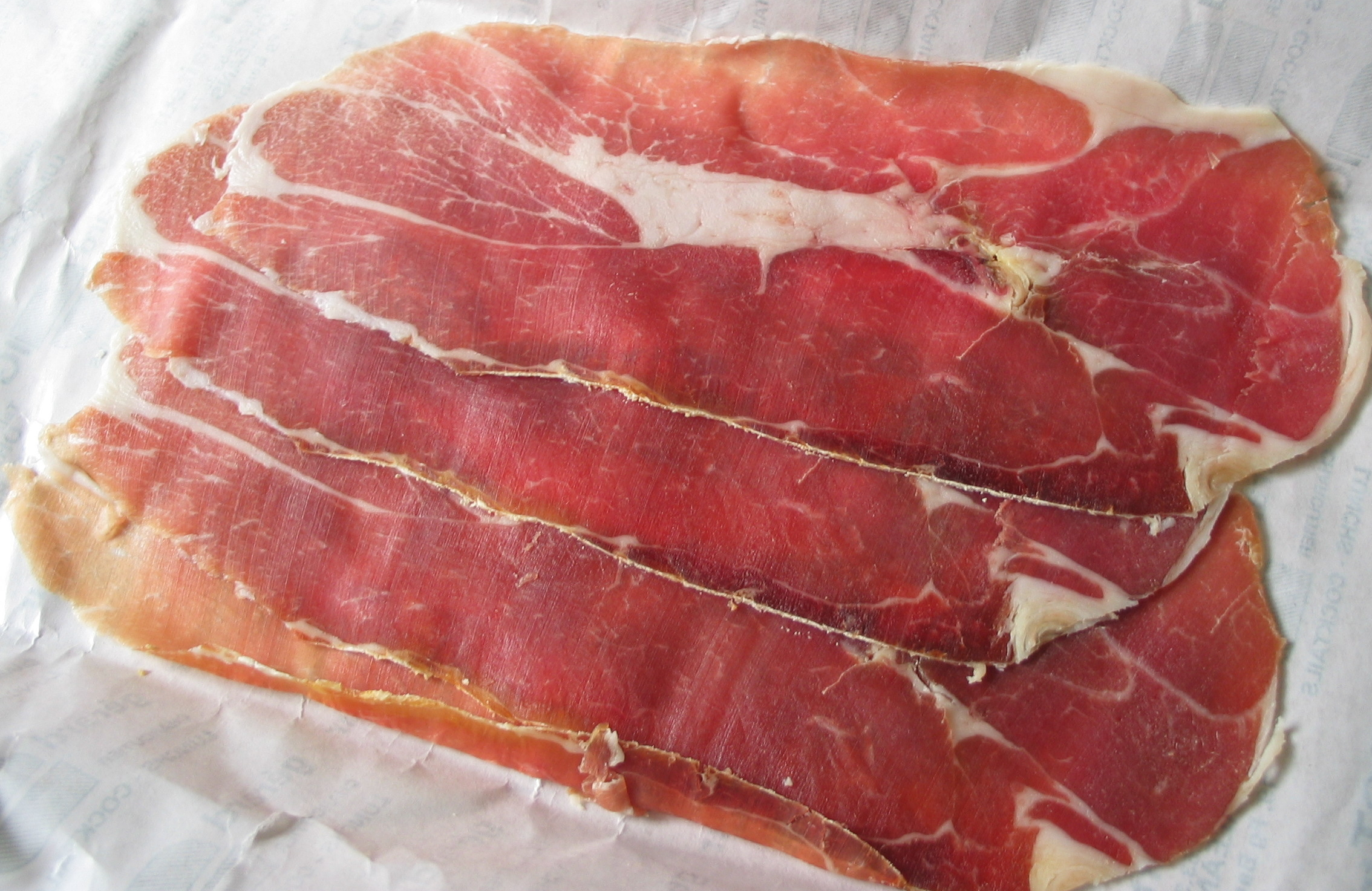 San Daniele : Italian Ham.